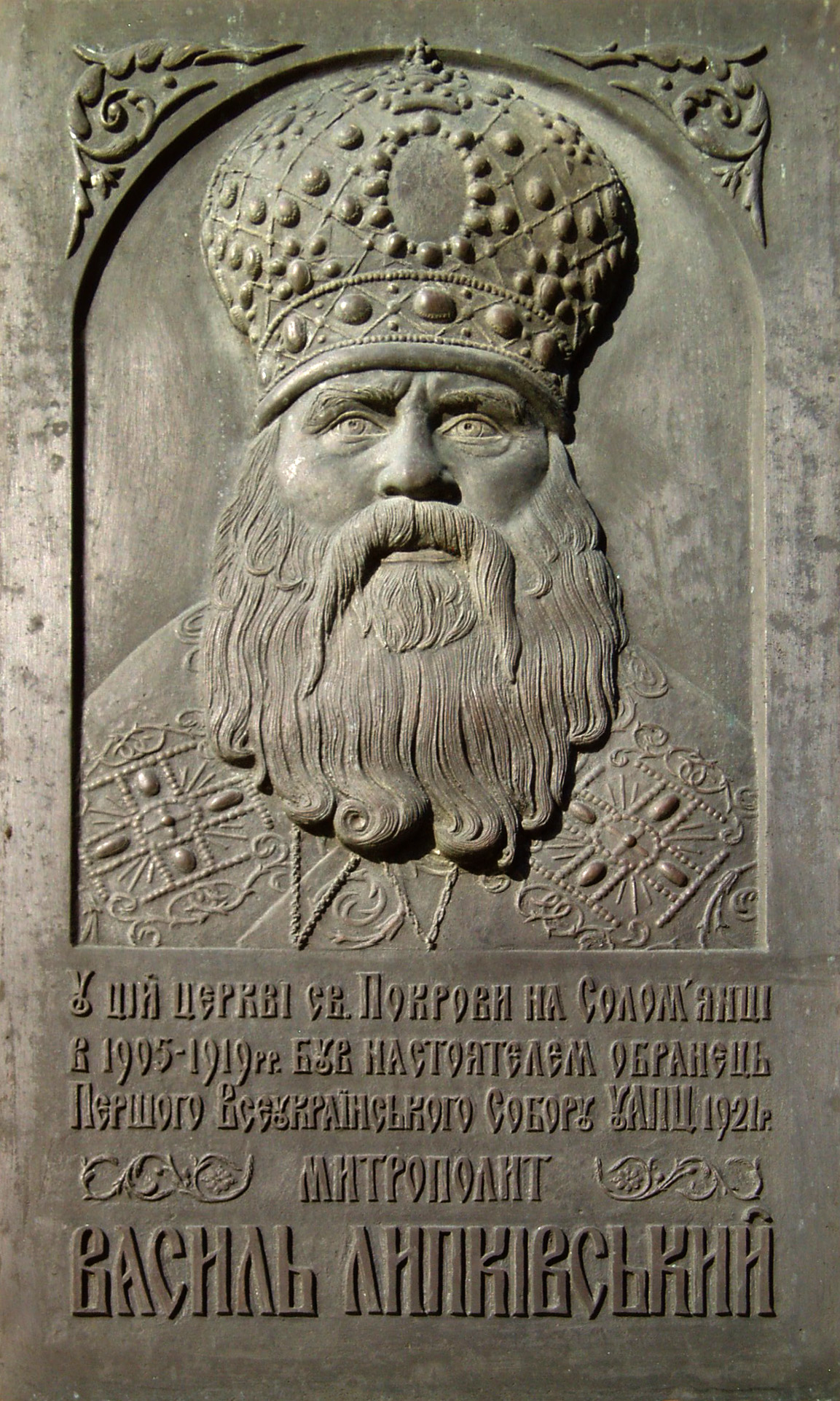 A photo of a memorial plaque dedicated to metropolitan Vasyl (Lypkivskiy) in Kyiv, Ukraine